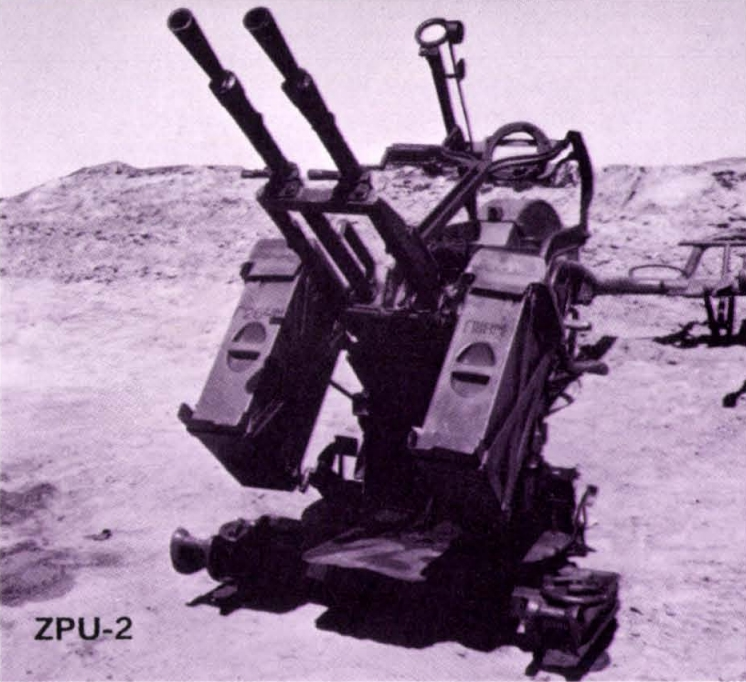 ZPU-2.